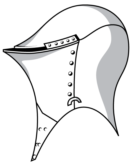 Helmet. Element of Coat of arms.